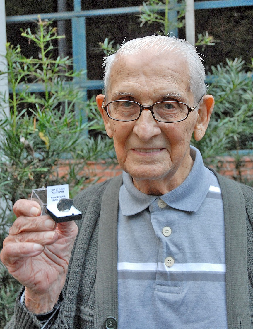 Fernando Flavio Marques de Almeida, Brazilian geologist